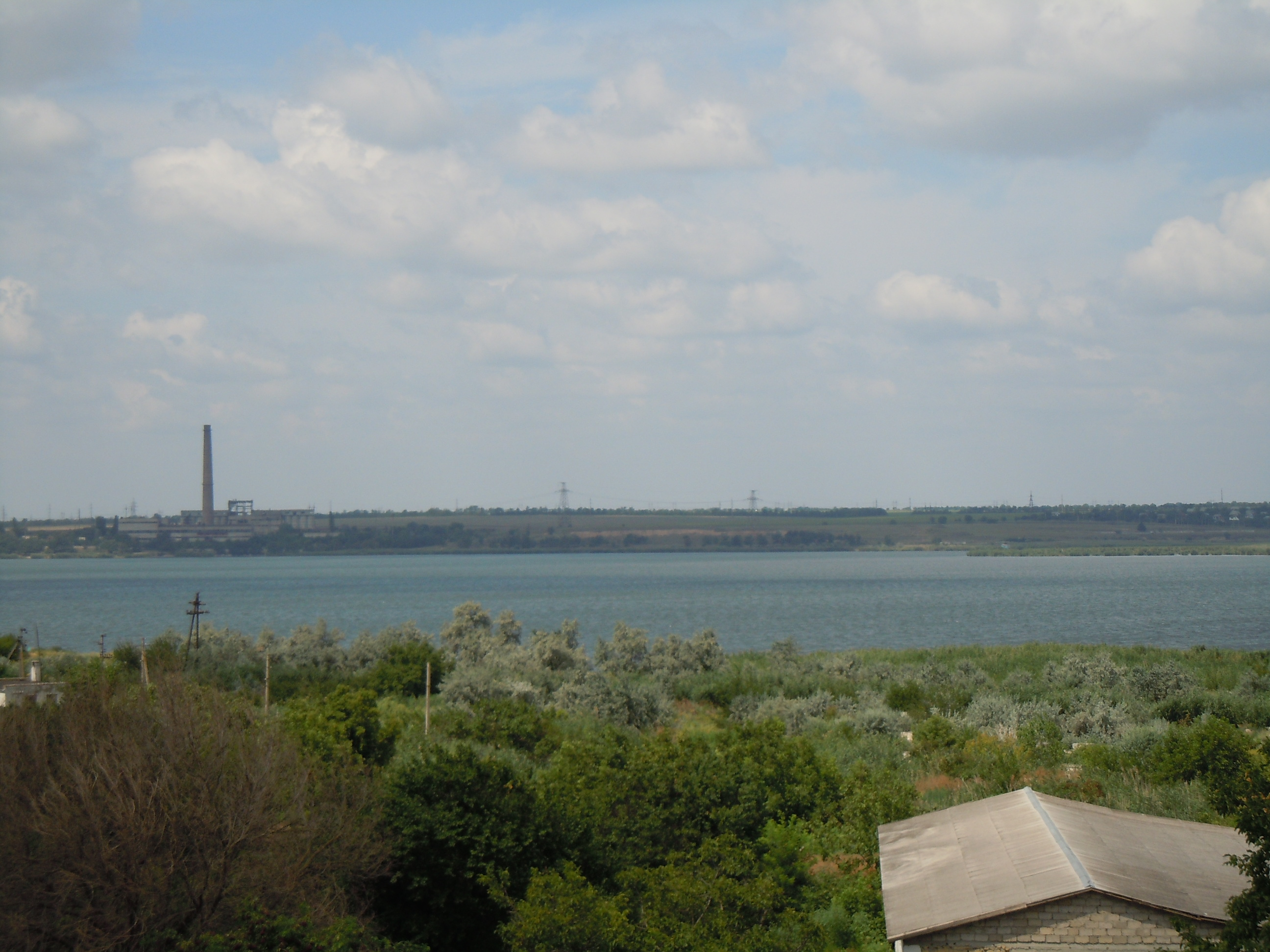 The view on the Cuciurgan Reservoir, on the border between Ukraine (Odessa Oblast) and Moldova